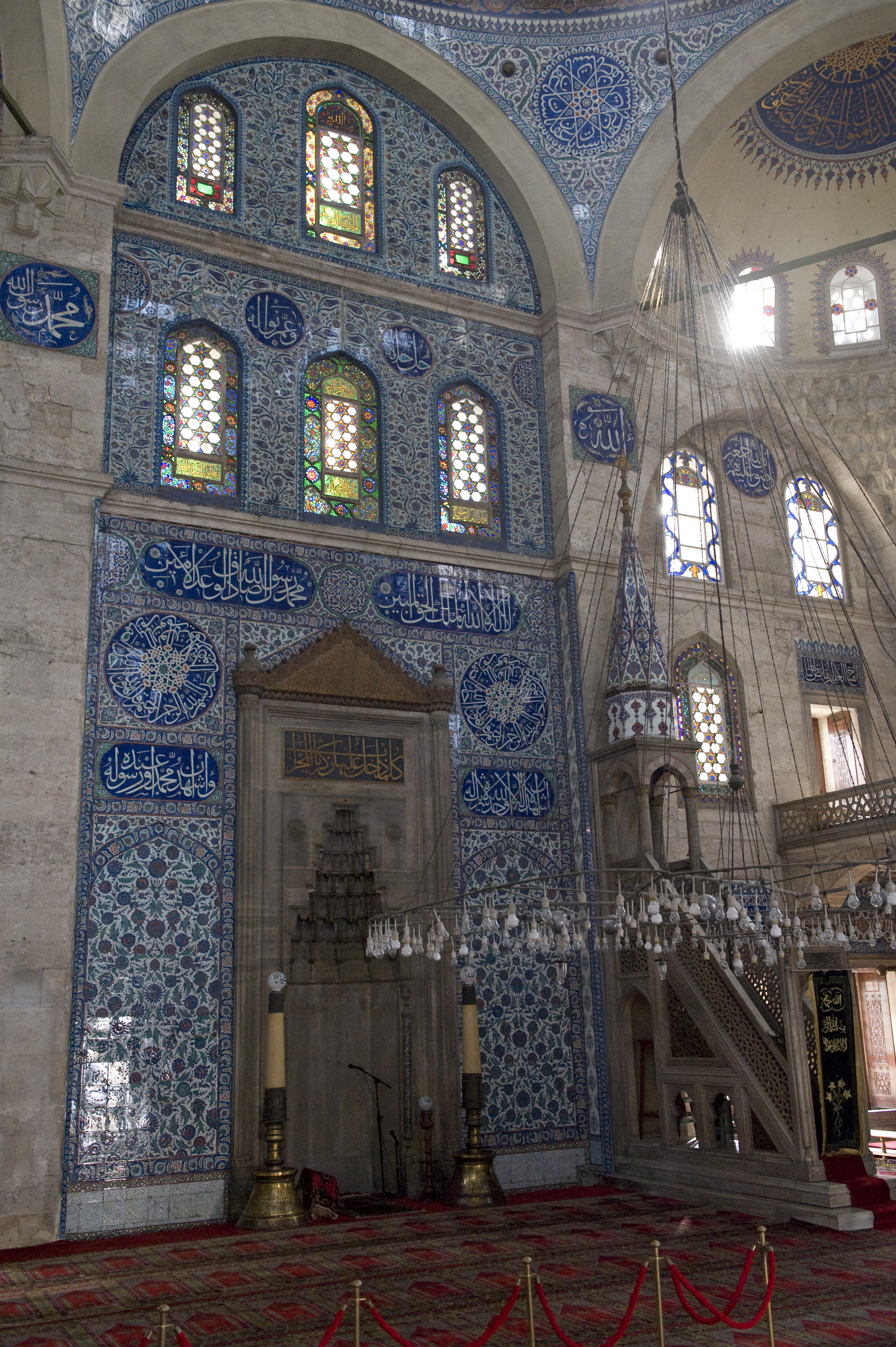 The mosque has a lot of extremely fine Iznik tiles. Here they surround the mihrab, also note the top of the minber to the right with a fine white ground that stands out.